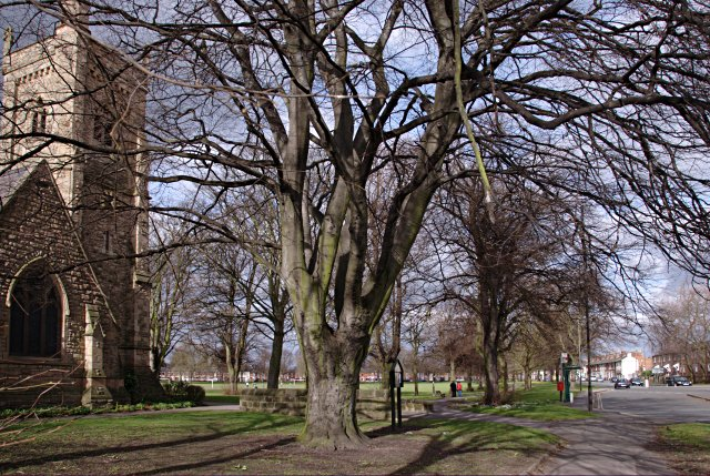 Chester Green This is a popular residential area just north of Derby City Centre, St Paul's church is on the left, and the Mansfield Road to the right in this picture.